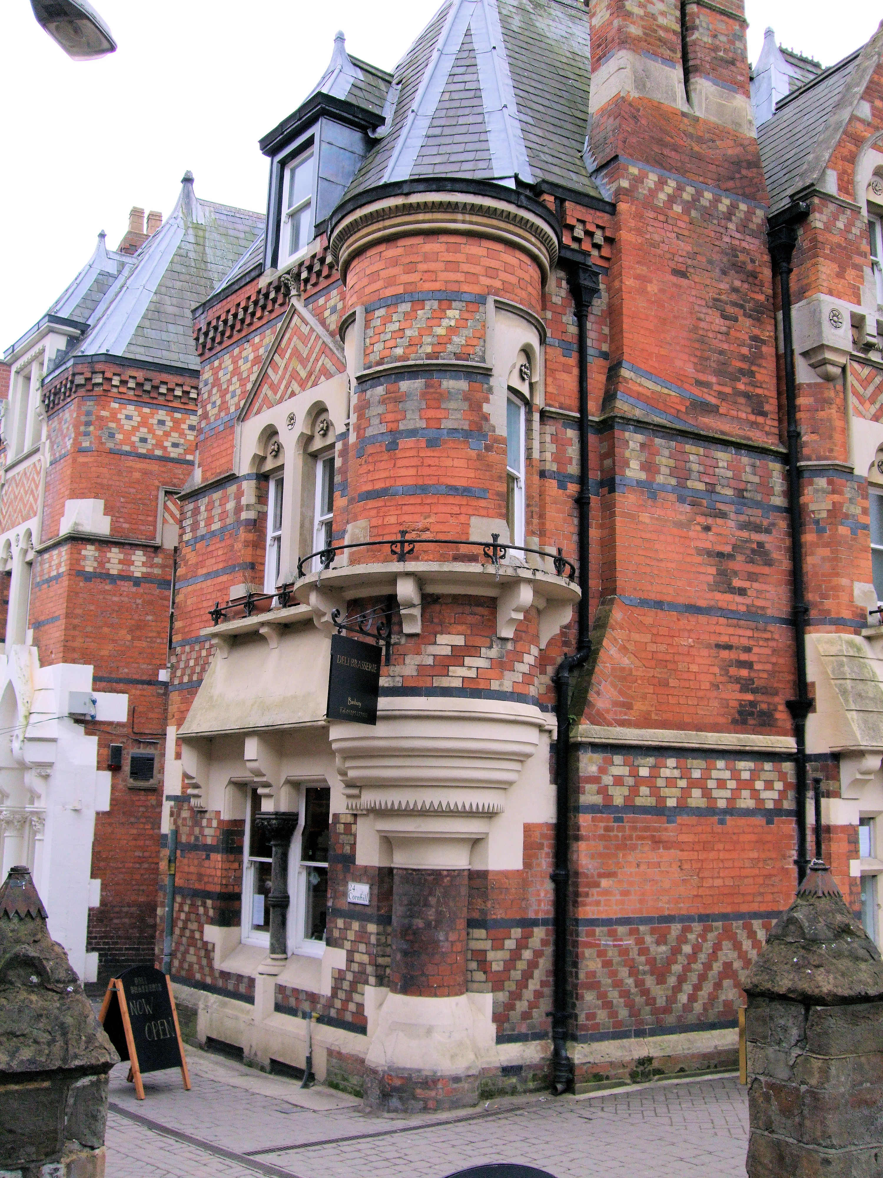 24 Cornhill / Market Place, Banbury, Oxfordshire, designed by William Wilkinson and built in 1866